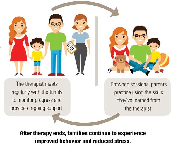 Expected circulation in Parent training in Behavior Therapy for ADHD.